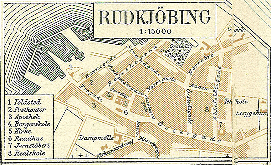 Map of the southern part of Svendborg County in Denmark